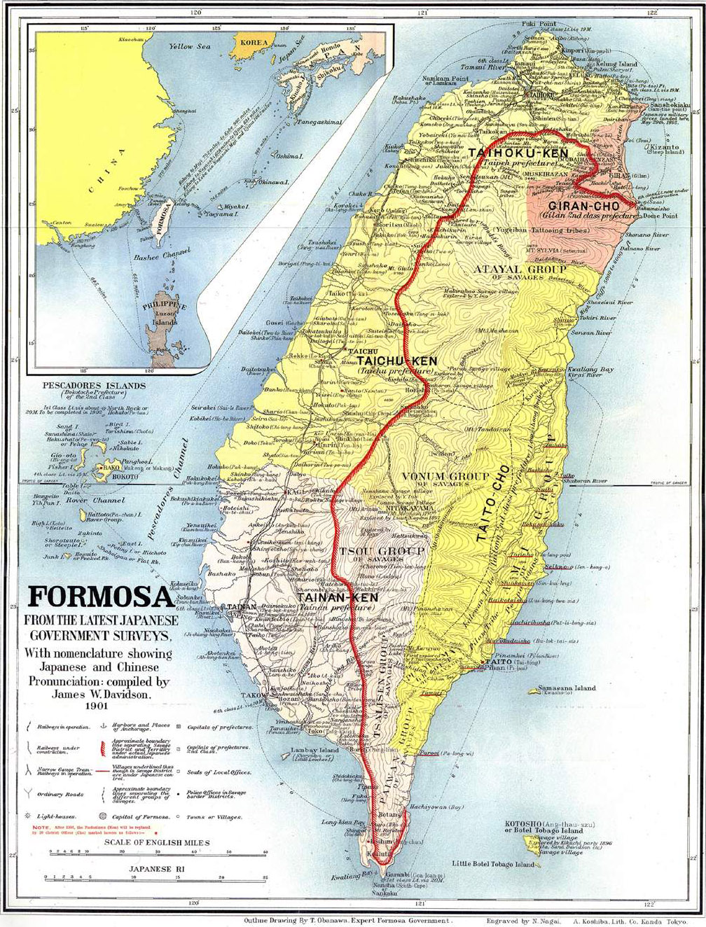 "Formosa from the latest Japanese government surveys." 1901. Map. Insert to Davidson, James W. (1903) The Island of Formosa, Past and Present : history, people, resources, and commercial prospects : tea, camphor, sugar, gold, coal, sulphur, economical plants, and other productions, London and New York: Macmillan . Note on nomenclature and pronunciation (p. iii): "The Japanese name is given first, and the Chinese in brackets, with the exception of a few well-known names such as Kelung, Takow, etc., and some English names of islands in the Pescadores."